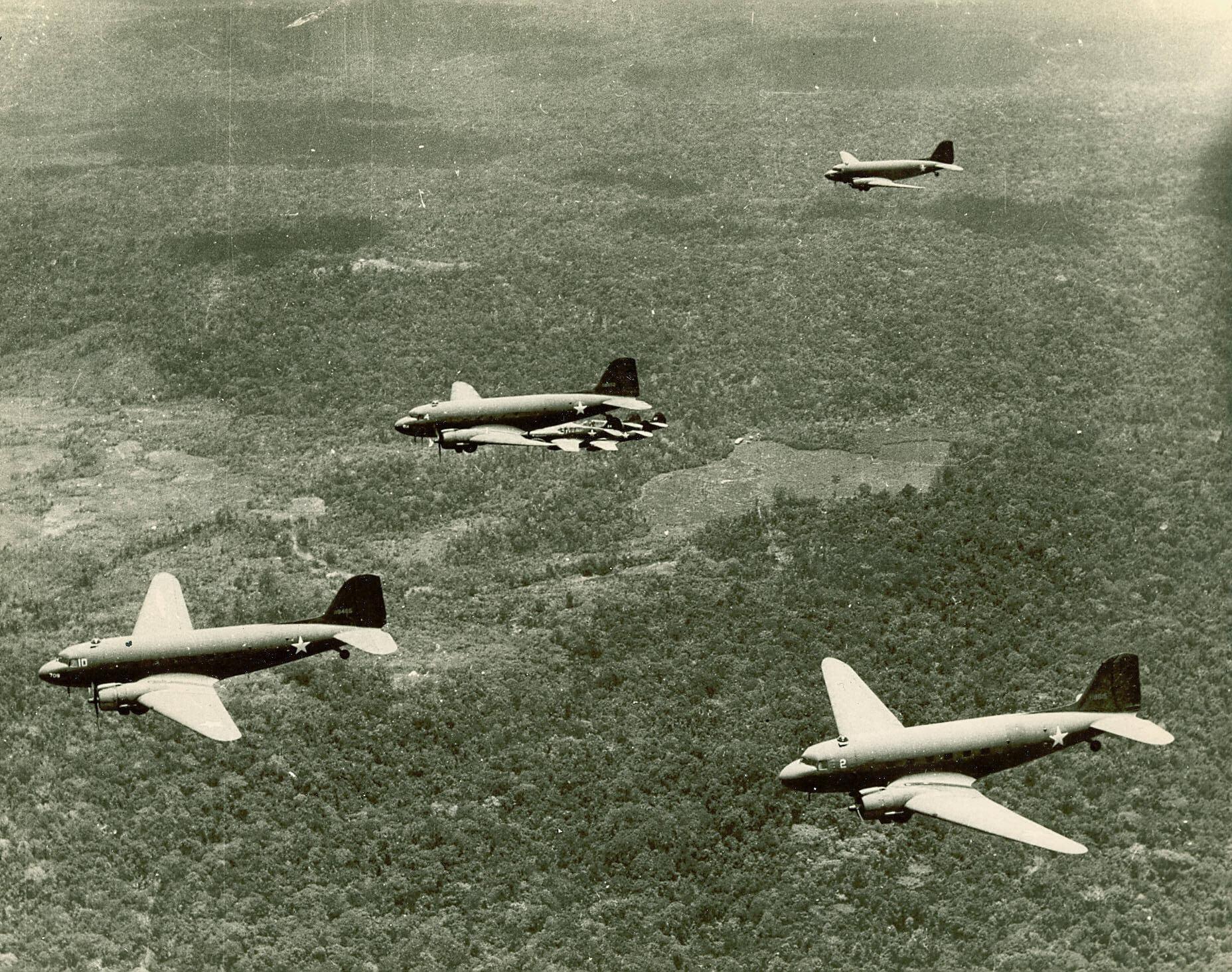 Big fellas and little friends. Four C-47 Cargo planes escorted by P-40 fighters carry supplies to a forward airfield in New Guinea.